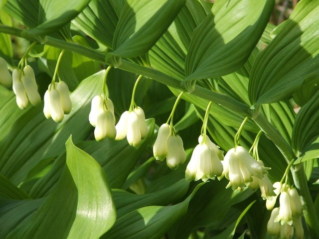 Garden Solomon's-seal. Like many of the flowers that occur alongside this section of the cycle path, near the site of an old brickworks (1449530), this appears to be a garden escape that has become naturalized (self-propagating) in the wild. Garden Solomon's-seal, Polygonatum × hybridum, is a hybrid of two native species, P. multiflorum (Solomon's-seal), which has a smooth cylindrical stem, and P. odoratum (Angular Solomon's-seal), whose stem is angled (in cross-section). The stem of the hybrid is intermediate in form, with ridges.